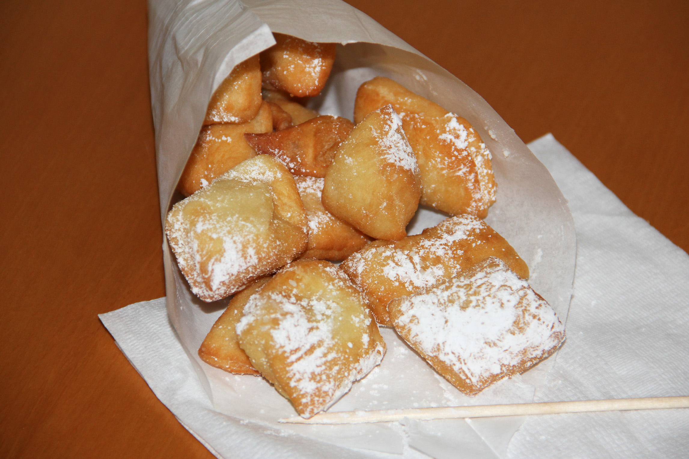 Mutzen from Rostock Christmas Market 2012